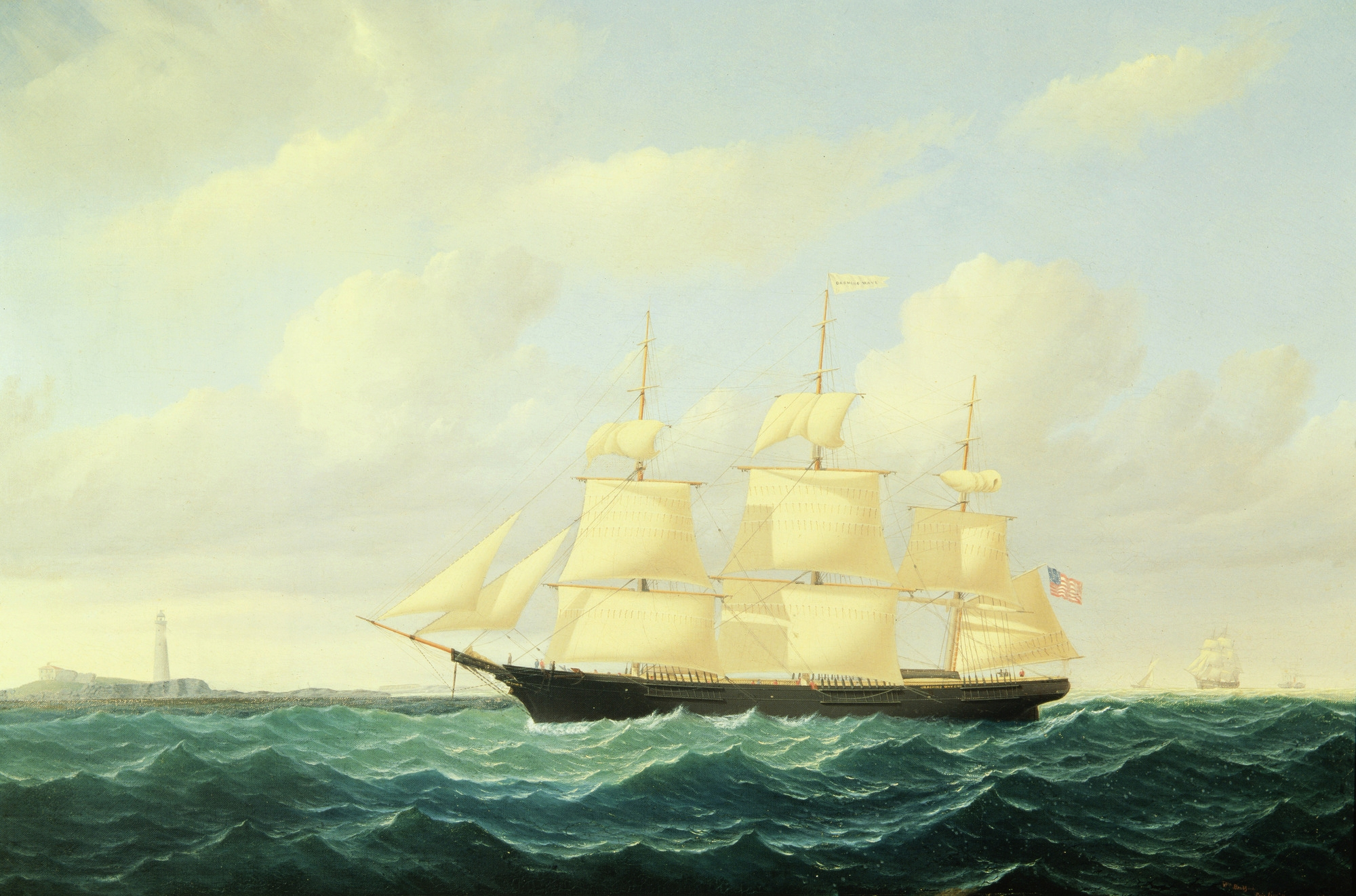 Launched at the shipyard of Fernald & Pettigrew, Portsmouth, NH, for Samuel Tilton & Co., Boston